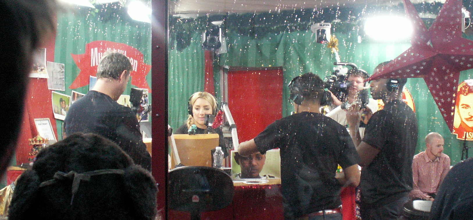 Musikhjälpen 2011, activities inside the glass cage with Gina Dirawi, Jason Diakité and Kodjo Akolor at the microphones.